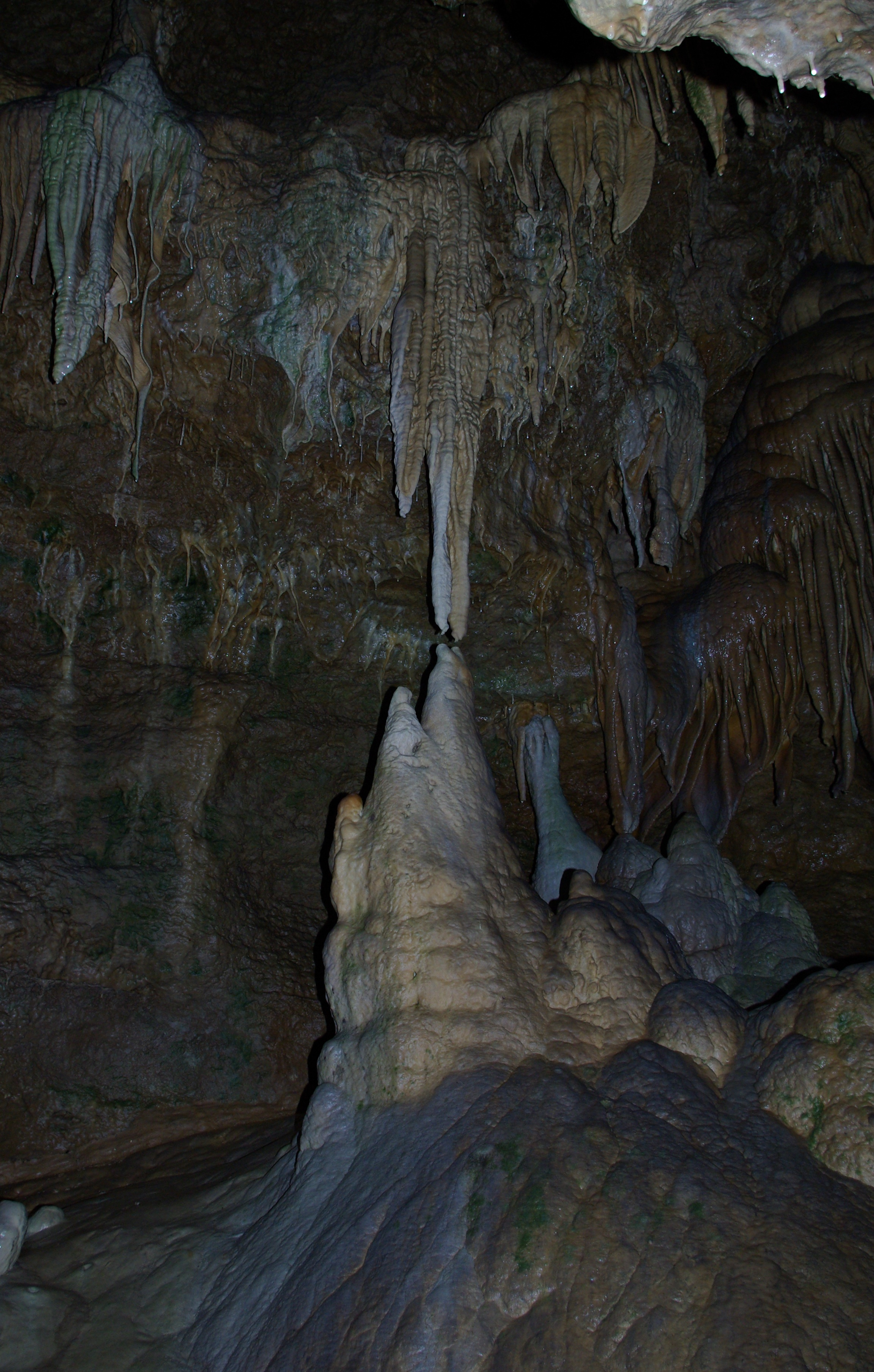 Devil's Cave (near Pottenstein)